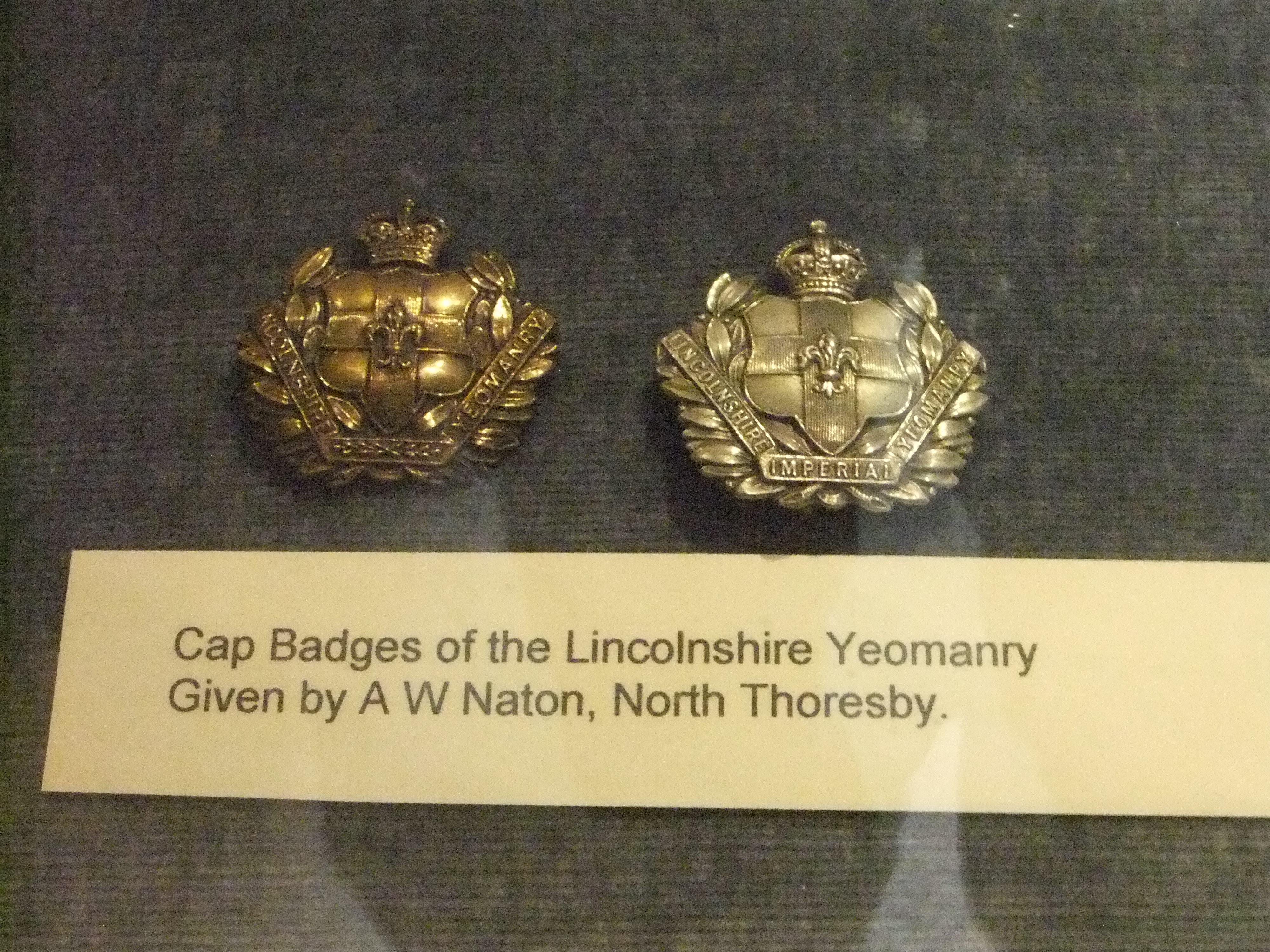 Cap badges of the Lincolnshire Yeomanry. Photo taken at The Museum of Lincolnshire Life, Lincoln, England.